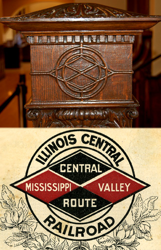 Stair railing woodwork in Springfield Union Station (Visitor Center), June 2007; Illinois Central Railroad public timetable, September 1899